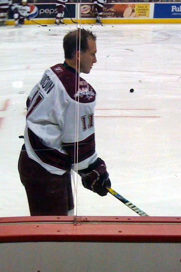 Keith Aucoin of the Hershey Bears